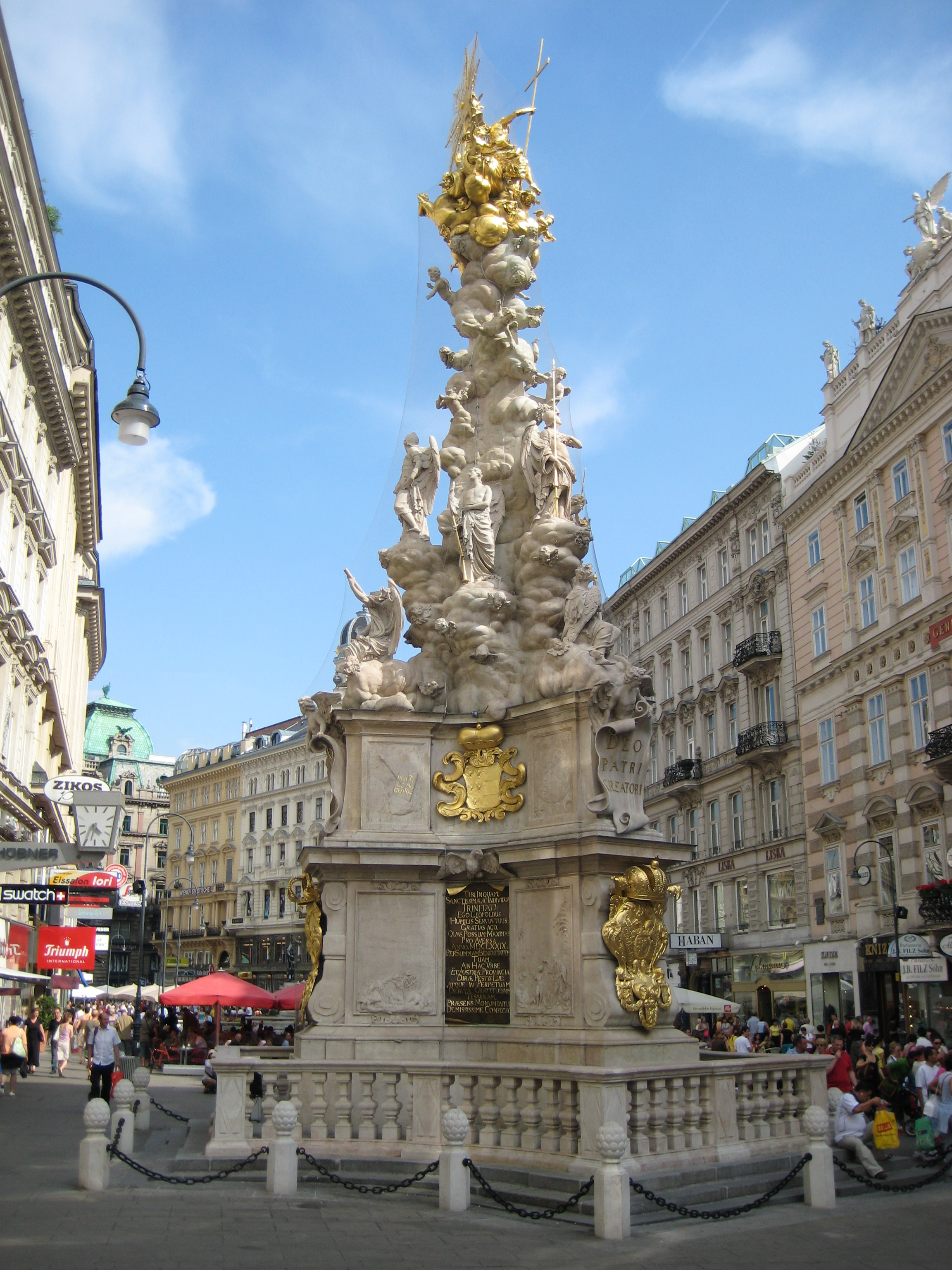 Pestsäule, Vienna